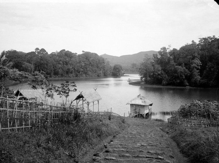 Situ Lengkong, the lake at Panjalu